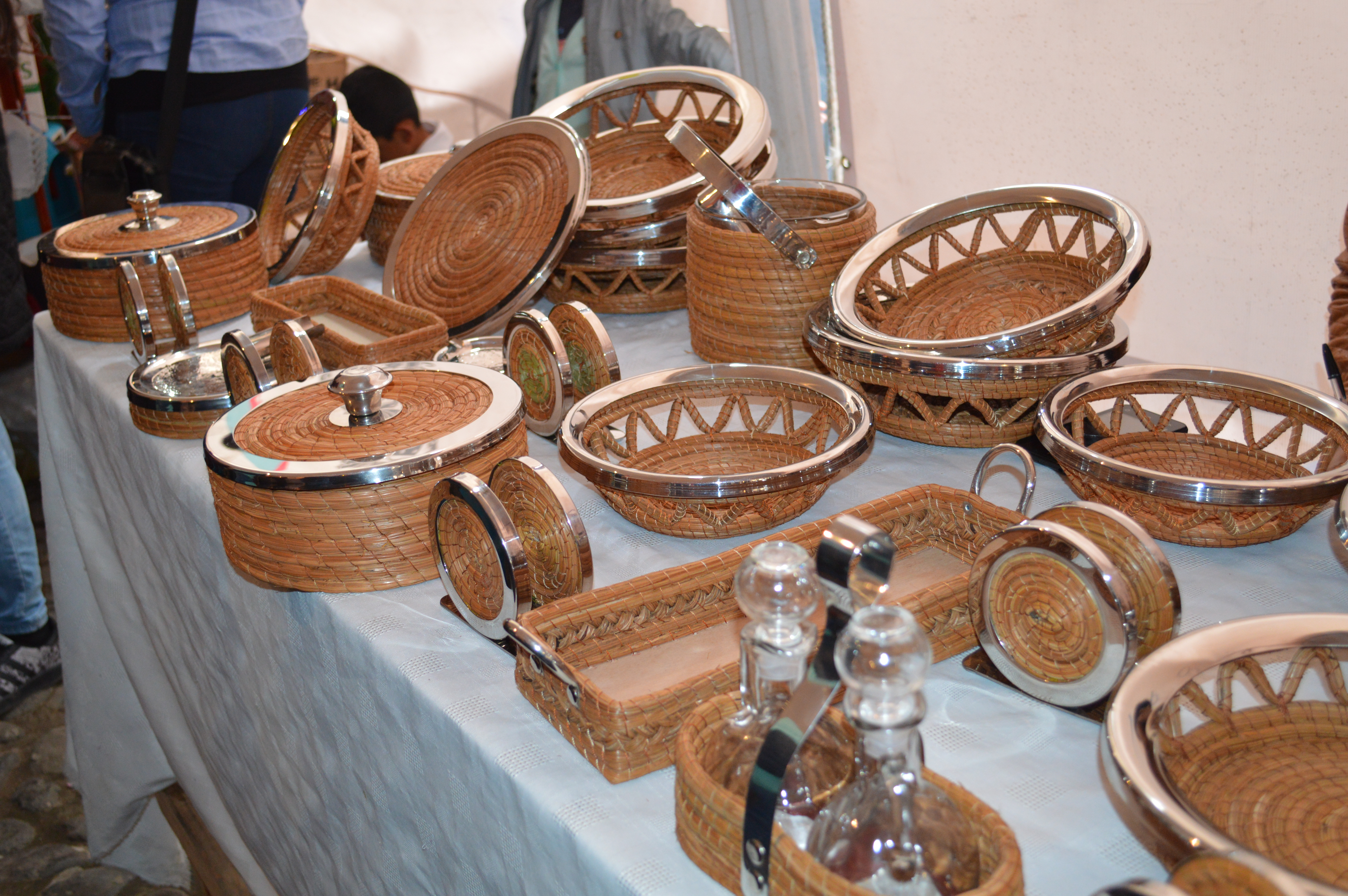 Pine needle basketry at the Feria de Esfera in Tlalpujahua, Michoacan